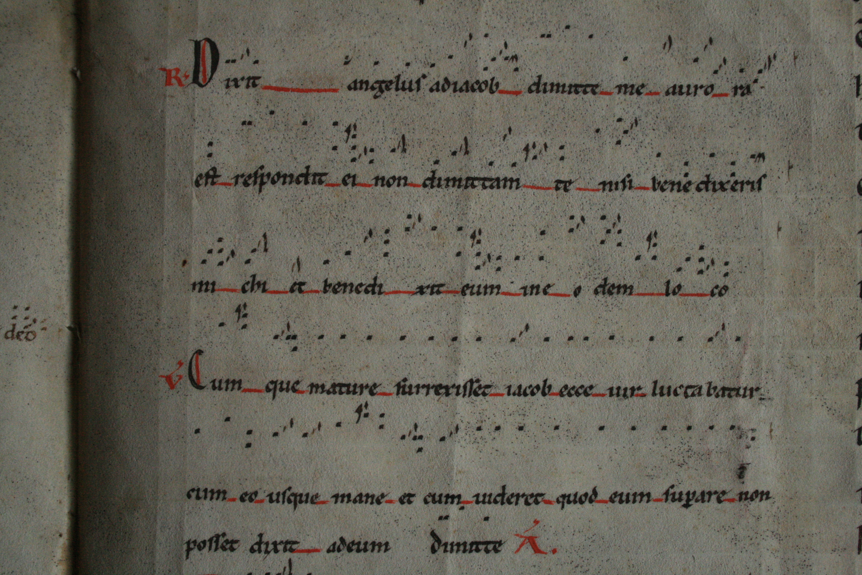 Adiastematic gregorian aquitanian notation. Manuscript kept in the "Arxiu Comarcal del Bages". Manresa. Catalonia. Spain